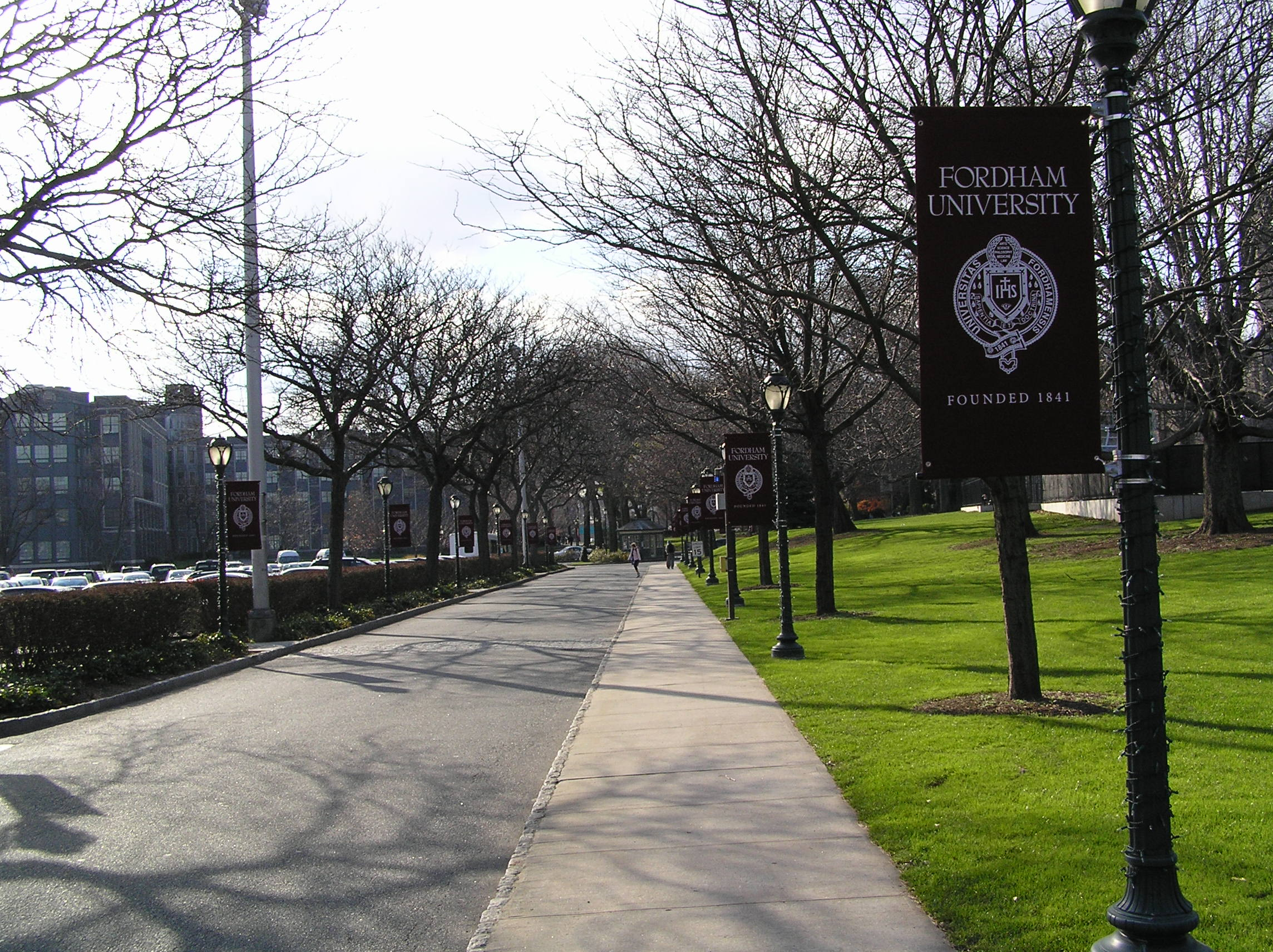 I took this photograph of the entrance to Fordham University on December 5, 2006. — GNU Free Documentation License